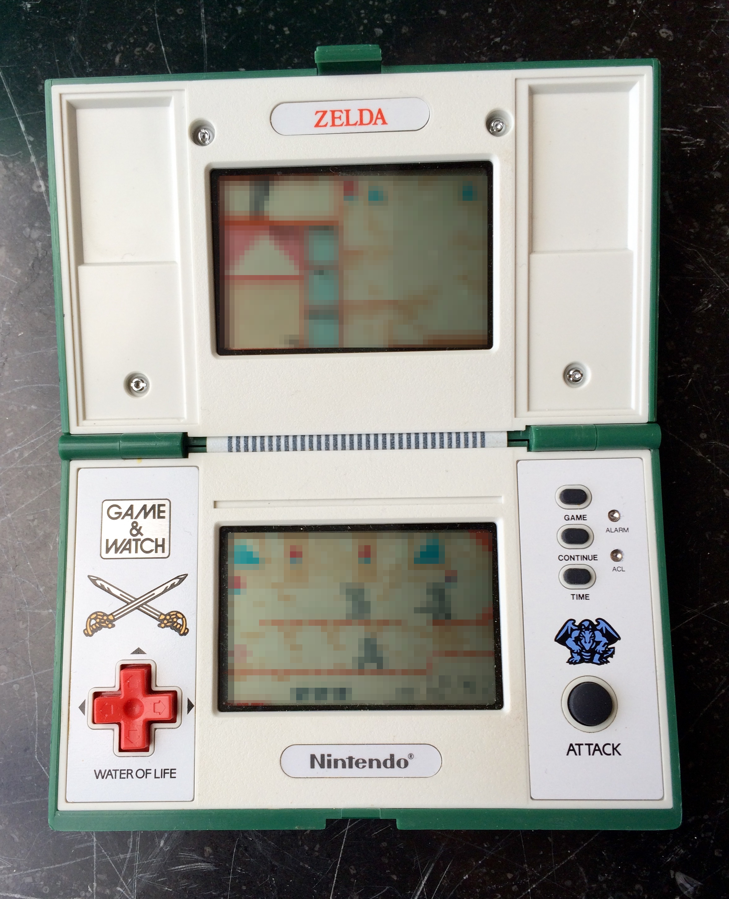 Photograph of the Nintendo Game & Watch Multi Screen game "Zelda".